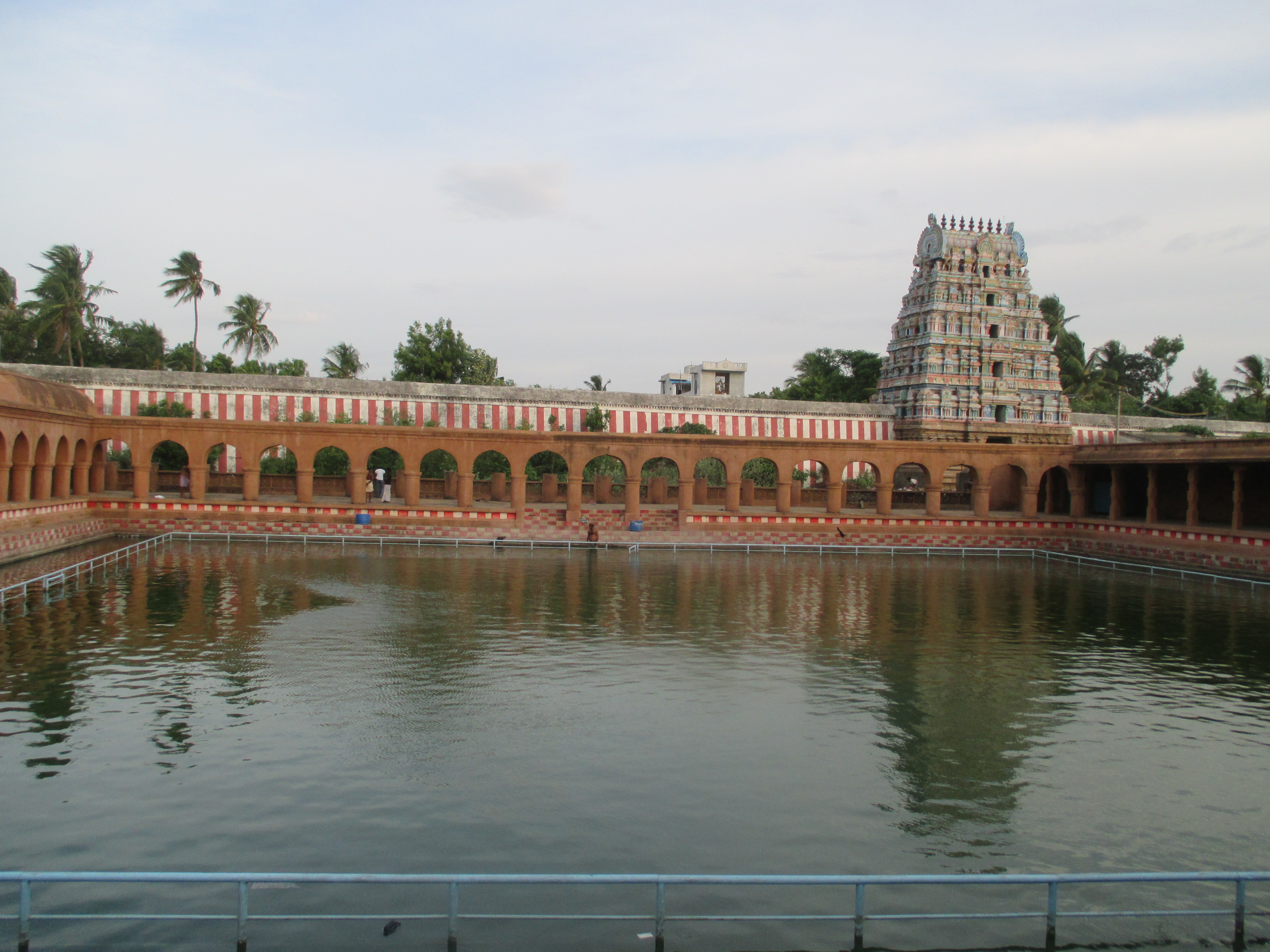 Tirunageswaram